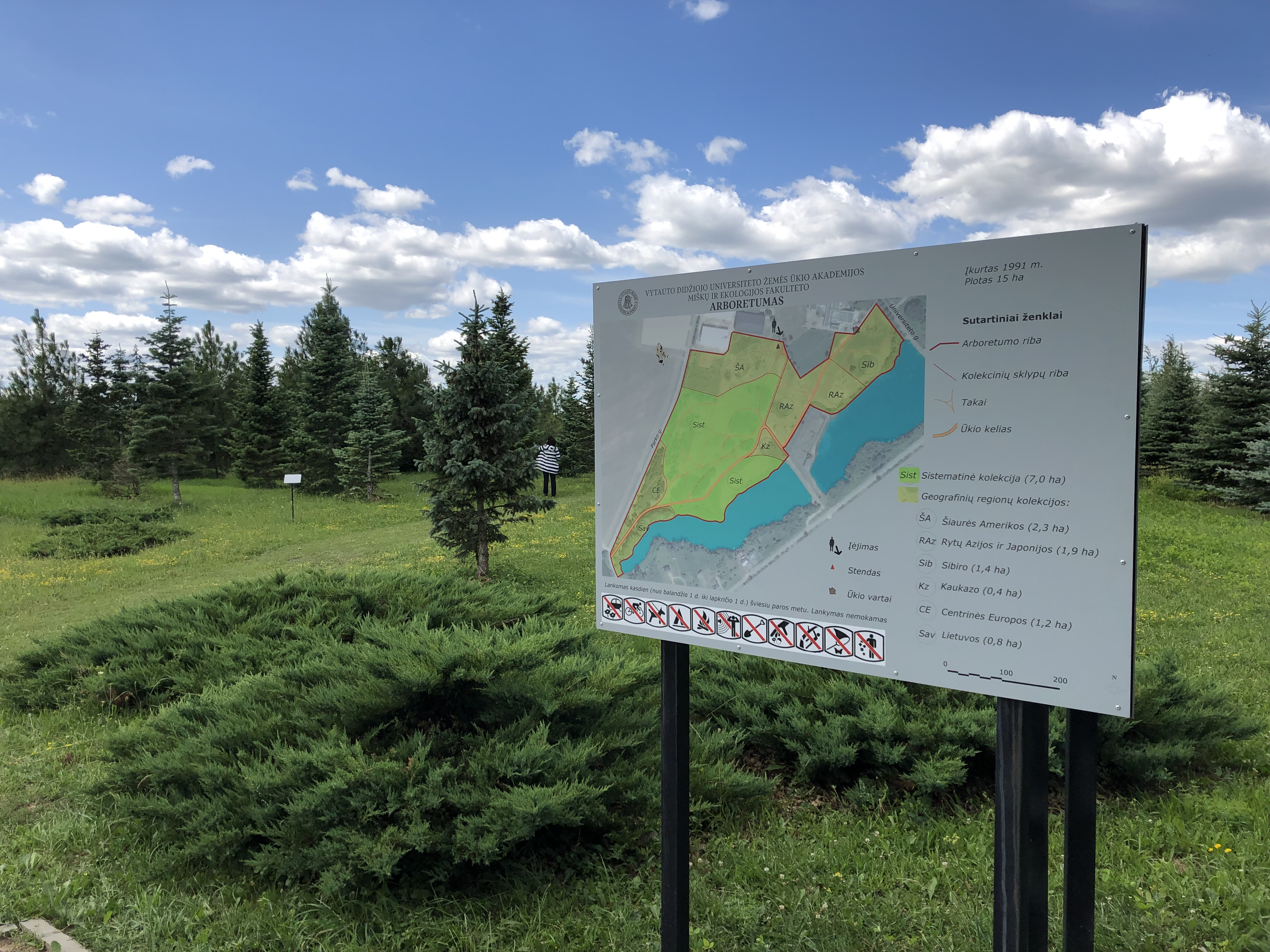 Arboretum of VMU Agriculture academy, Kaunas region, Lithuania